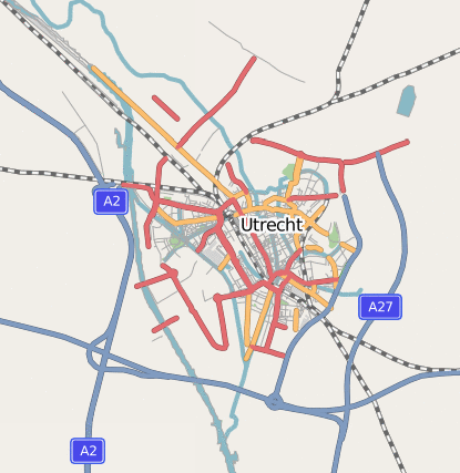 This map of Utrecht was created from OpenStreetMap project data, collected by the community. This map may be incomplete, and may contain errors. Don't rely solely on it for navigation.